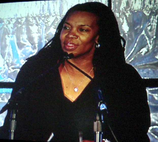 Stephanie Hightower at the Jesse Owens Awards banquet